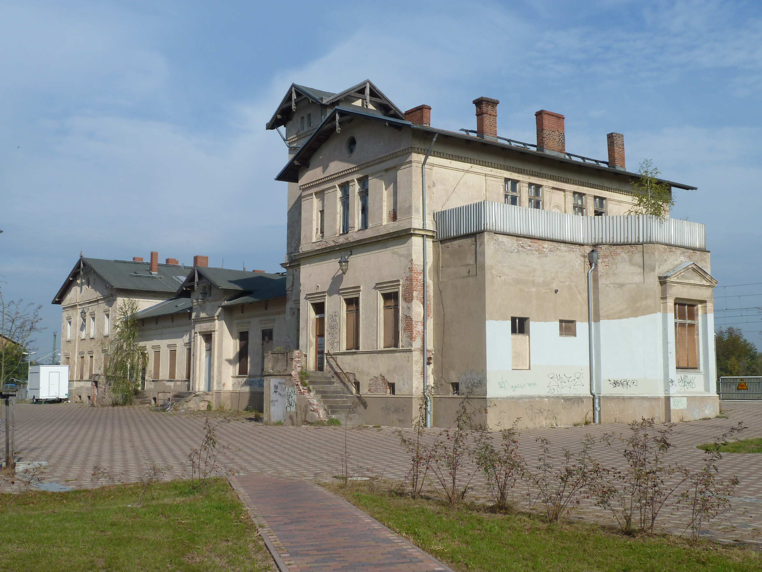 Paulinenaue railway station